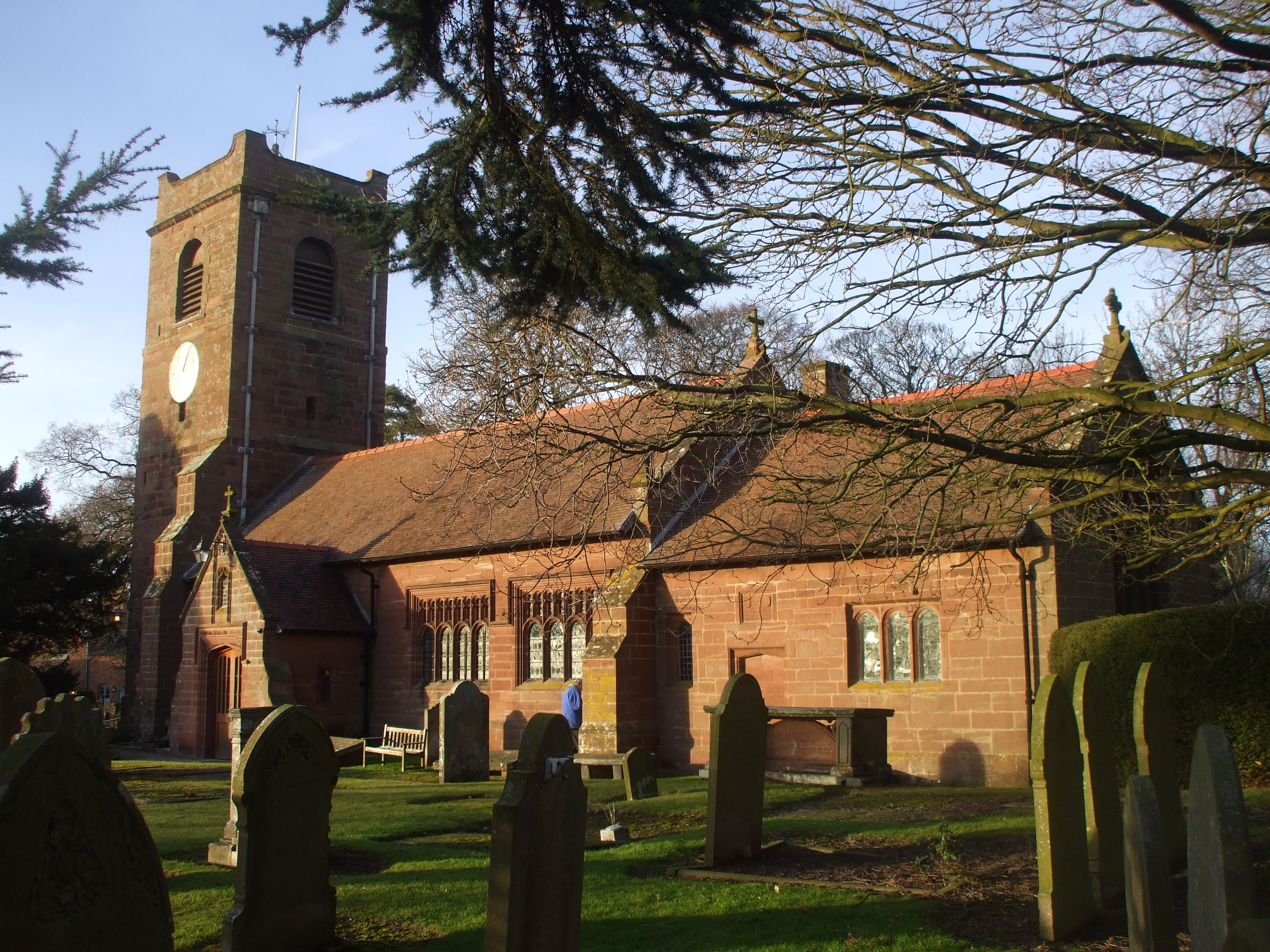 Photograph of St Bartholomew's Church, Great Barrow, Cheshire